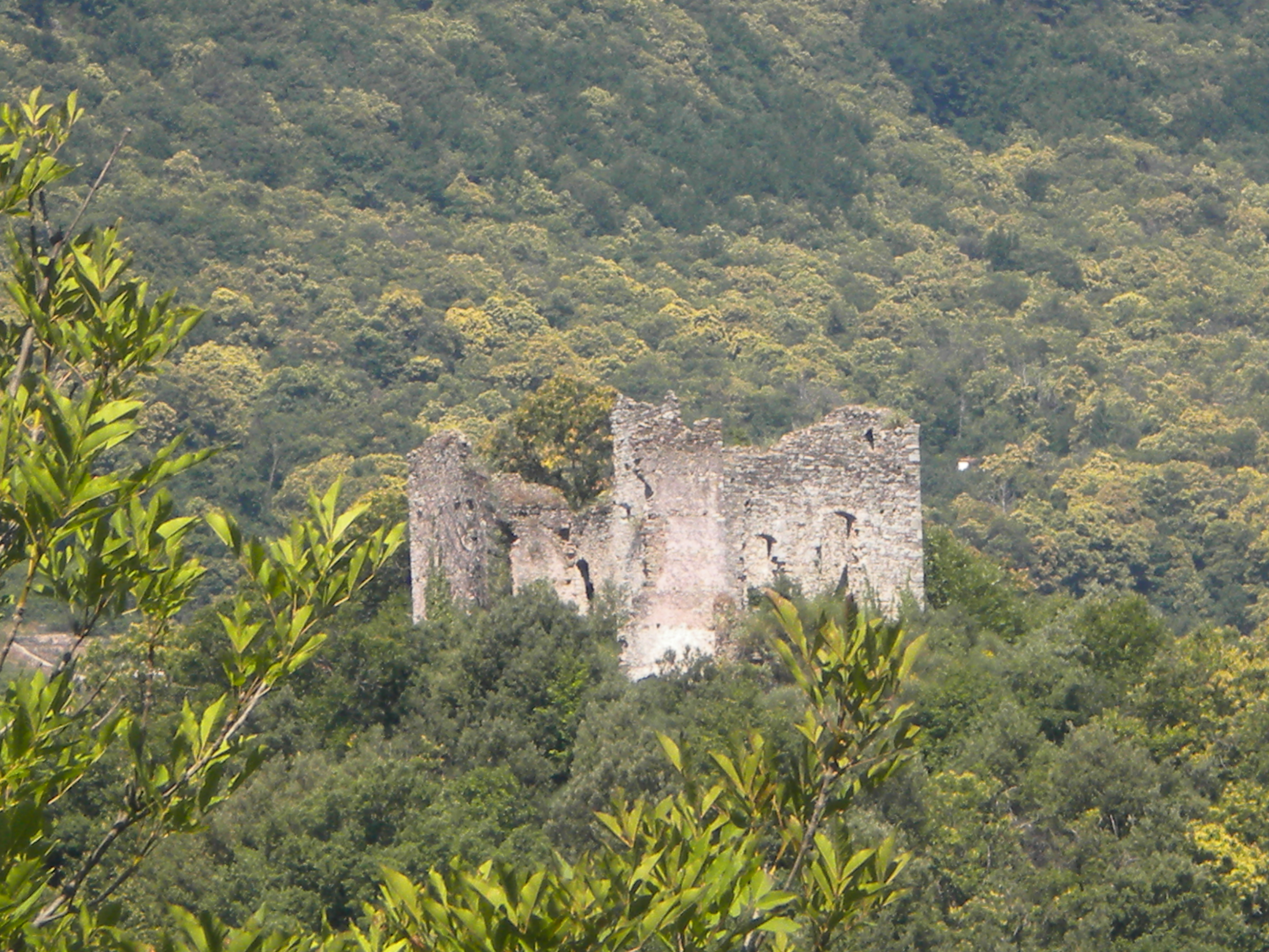 the fortress